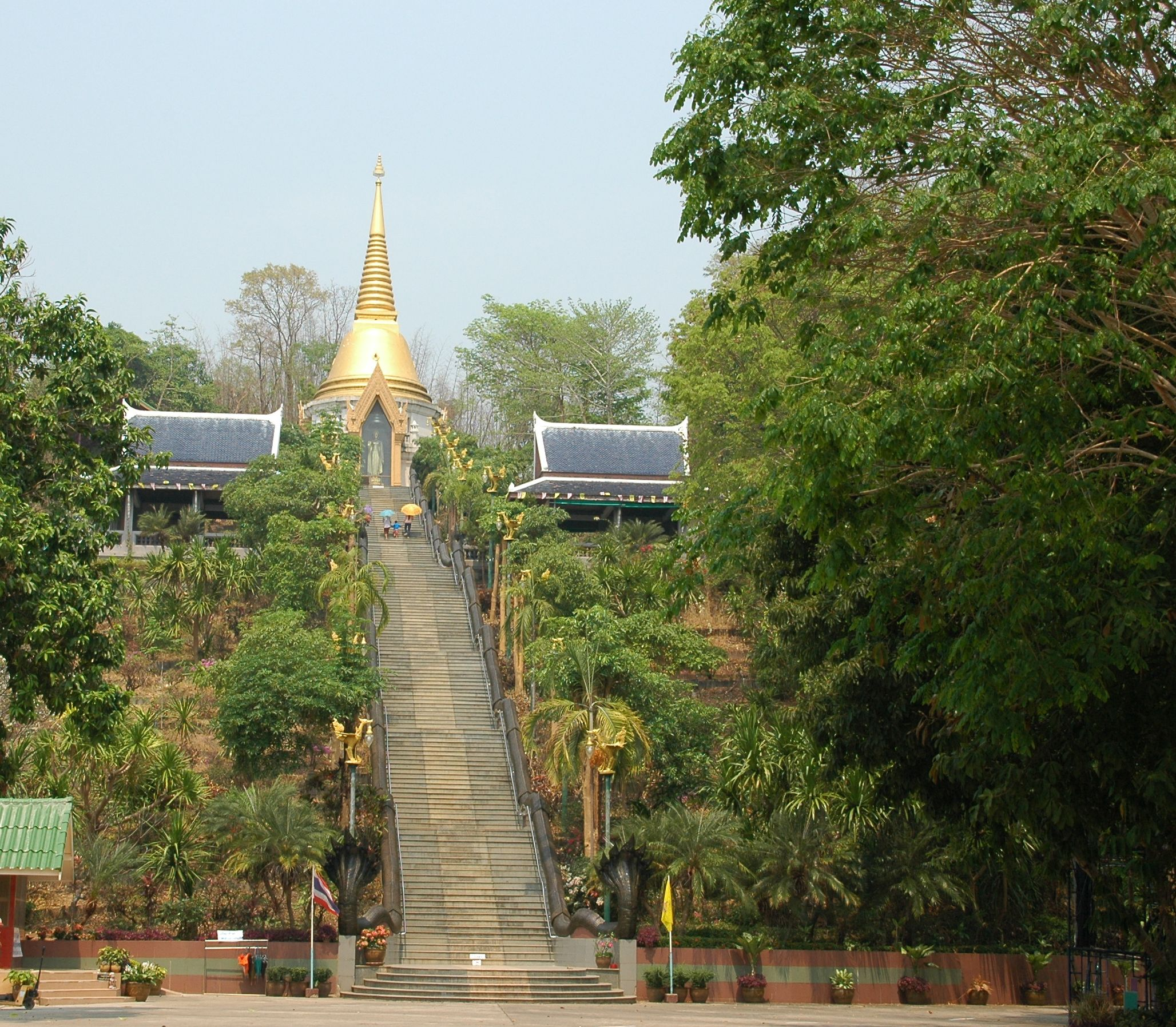 Chedi Prathom Rattanamahaburaphachan, next to Wat Pa Phu Kon, Province Udon Thani, Thailand.